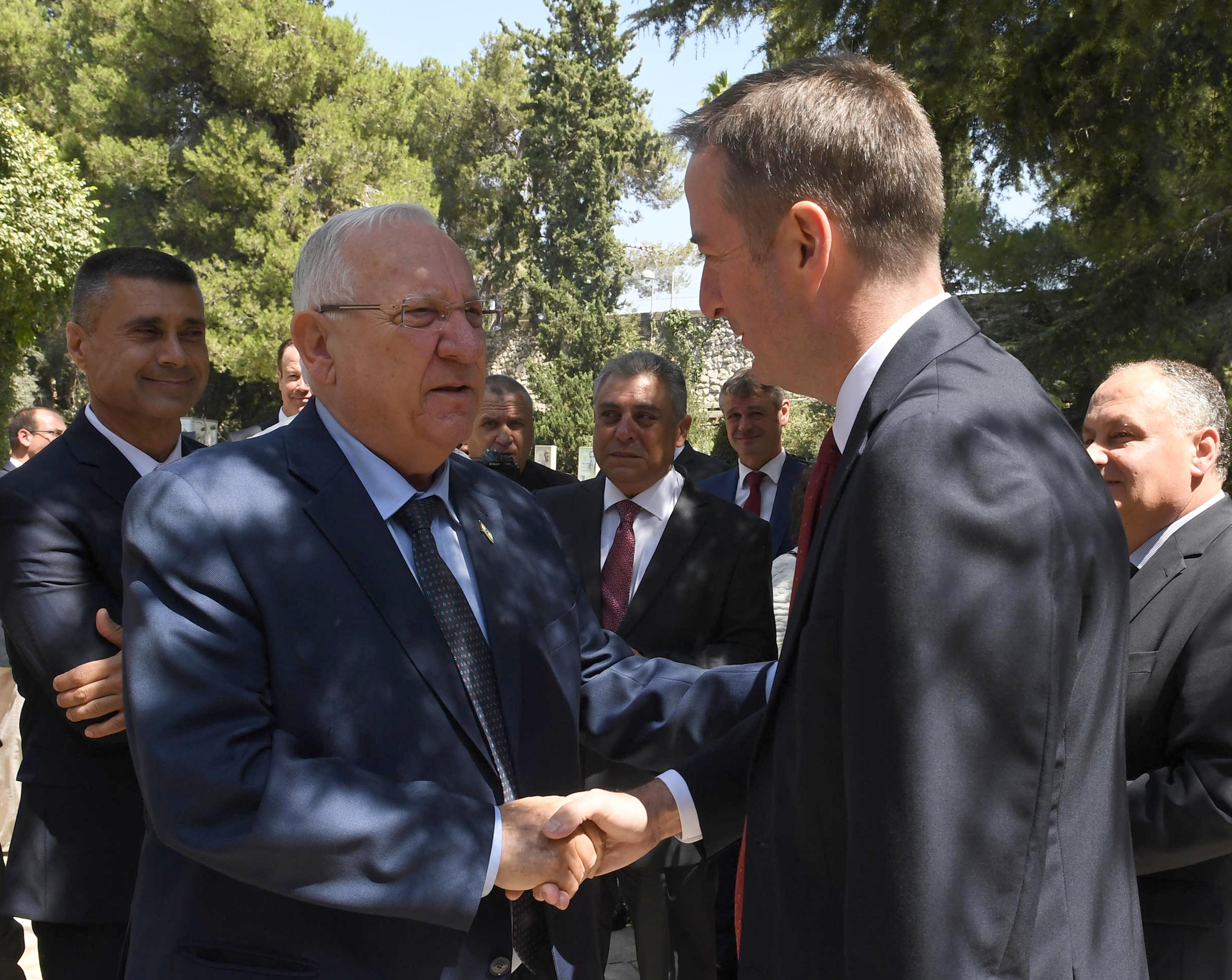 President of the State of Israel Reuven Rivlin and his wife at the President's Residence during a festive reception for the New Year with the diplomatic corps stationed in Israel. Monday, September 18, 2017. Photo Credit: Mark Neyman / GPO.